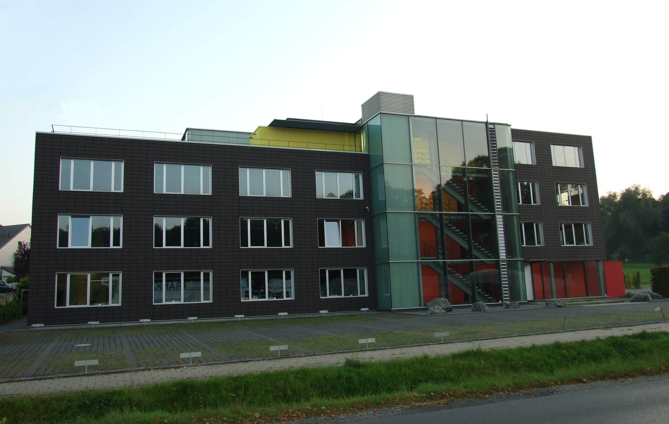 Aachen - Balanced Office Building